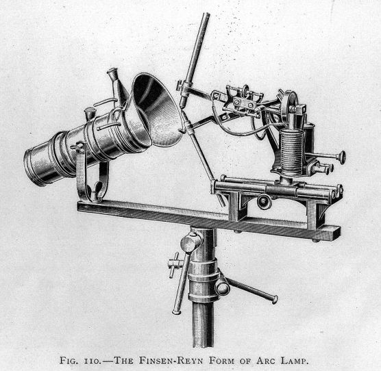 Illustration of the Finsen lamp